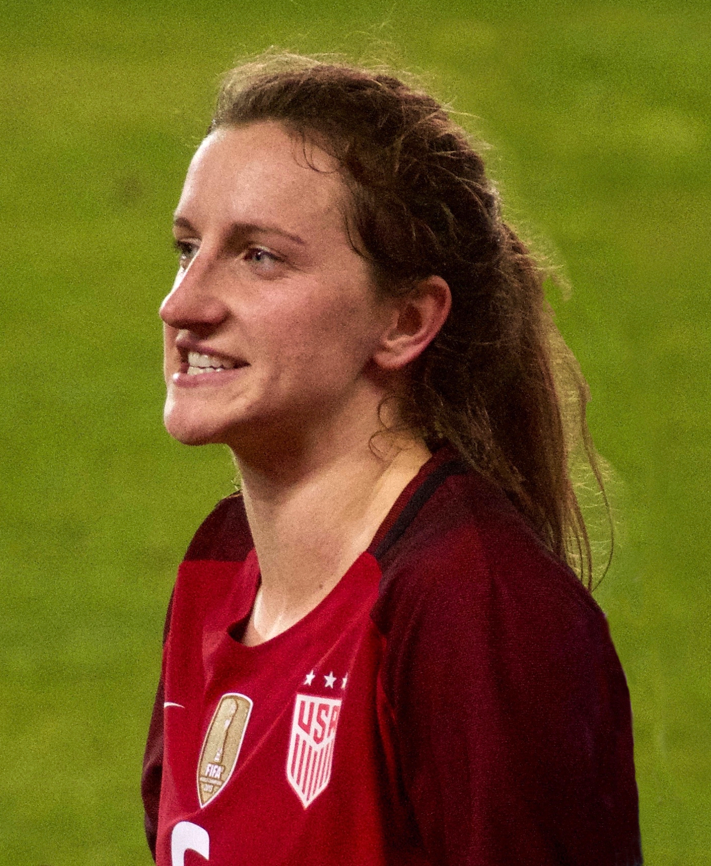 Andi Sullivan after a game at Avaya Stadium, San Jose, California, on 12 Nov 2017.